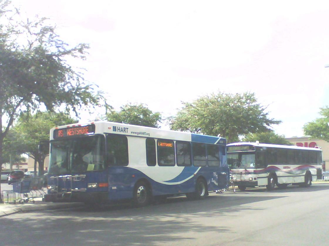 Taken by W.Slupecki